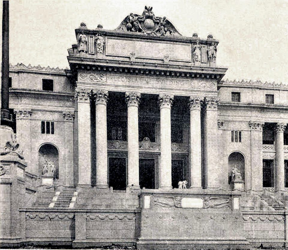 The central portion of the facade of the Legislative Building facing Padre Burgos, elements in the Neo-Classical style (Corinthian columns, ornate carvings and statues); plus the podium, stand, & flagpole base where in 1937 Manuel L. Quezon stood at the inauguration of the Philippine Commonwealth